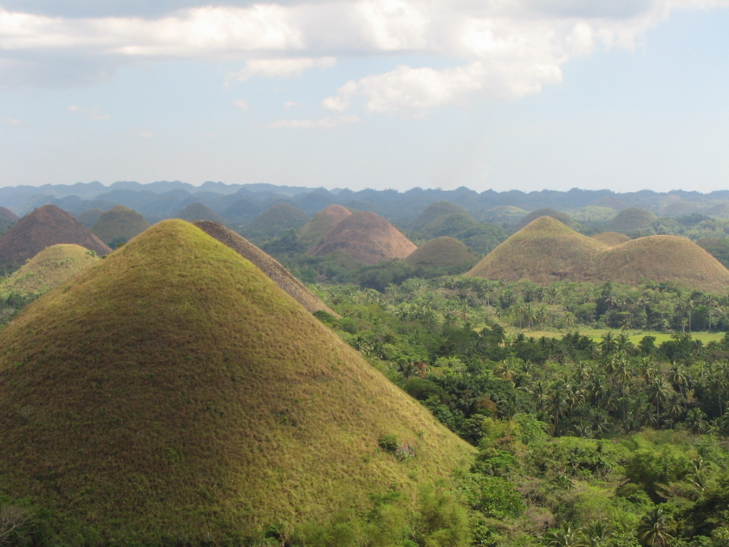 Chocolate Hills, Bohol Province, Philippines